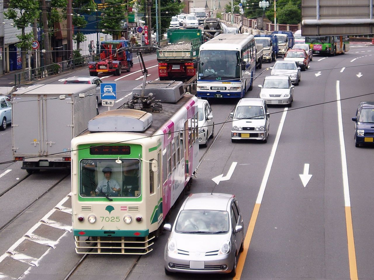 Tram Toden type 7000(No.7025) Bus JR Bus Kanto H654-94414 "Marronier Shinjuku" MITSUBISHI MOTORS "AERO BUS" U-MS821PA 2007.06.09 Photo by Cassiopeia_sweet.